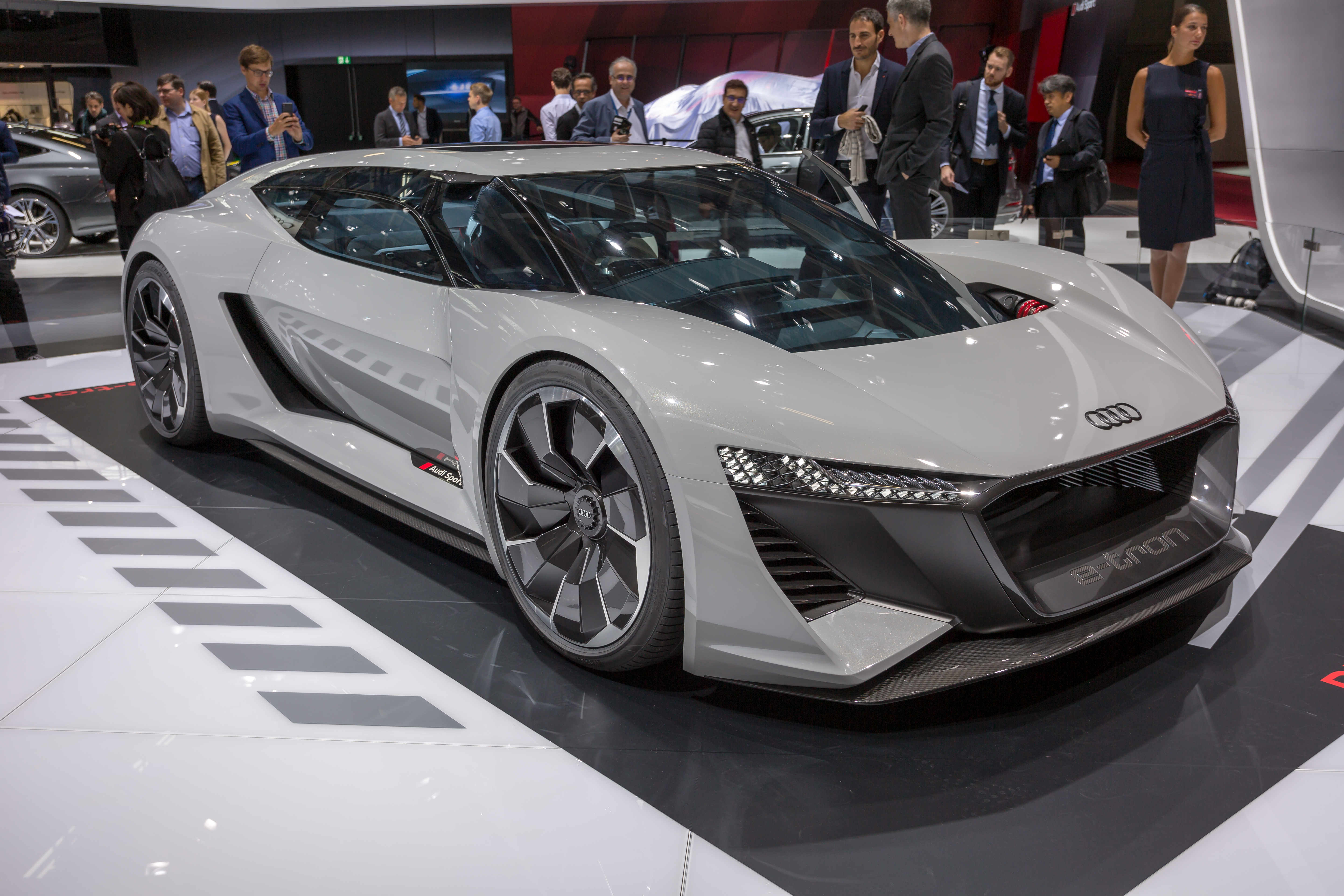 Audi PB18 e-tron concept, Mondial de l’Automobile de Paris 2018